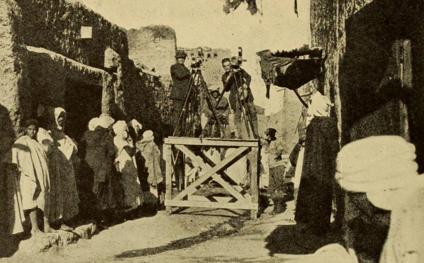 Cinematographer Robert Kurrle on location in Africa 1924 Other for an explanation of the copyright for information regarding public domain